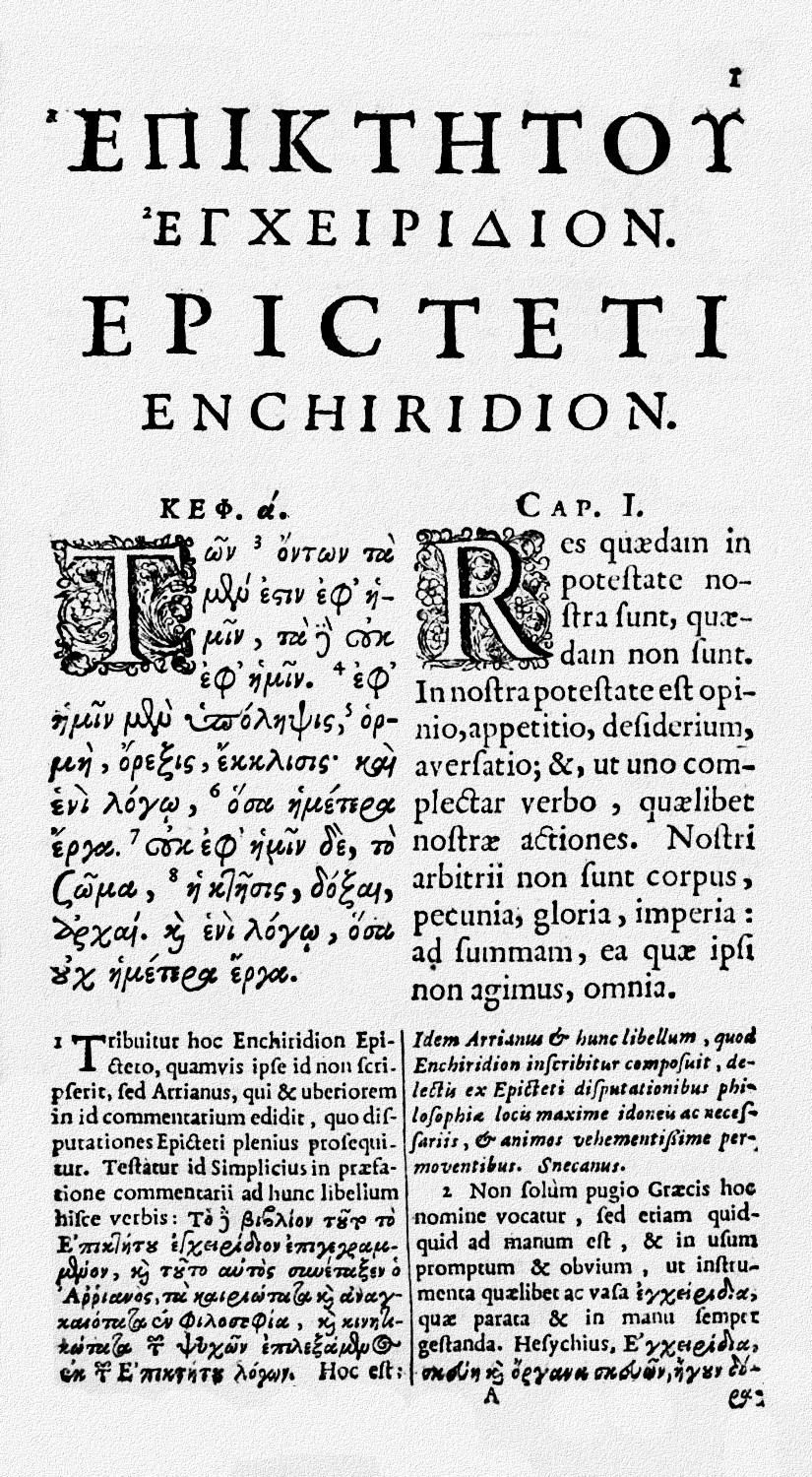 Chapter 1, page 1, of the Enchiridion of Epictetus, from the 1683 edition in Greek and Latin by Abrahamus Berkelius (Abraham van Berkel).